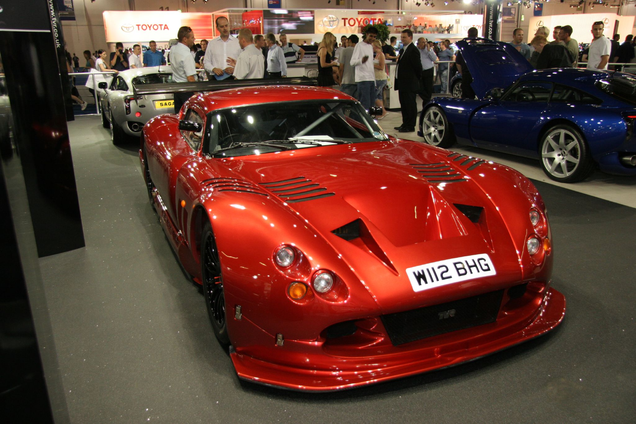 A TVR Cerbera Speed 12 (wow)